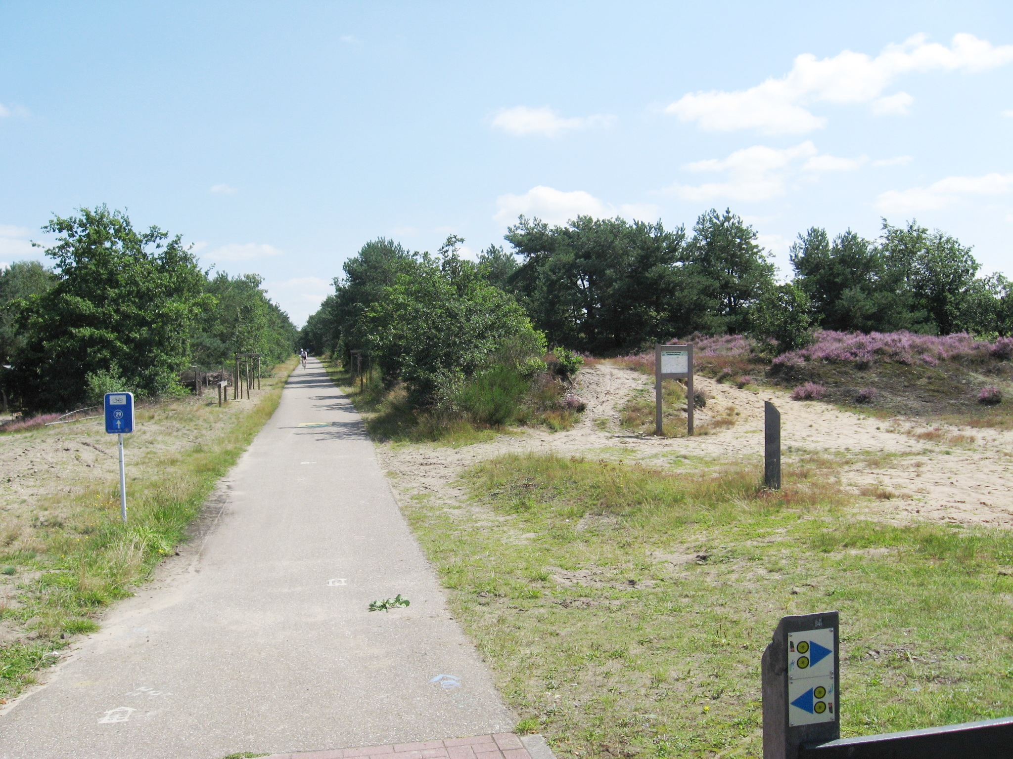 Railroad 18 in Zonhoven, Limburg, Belgium